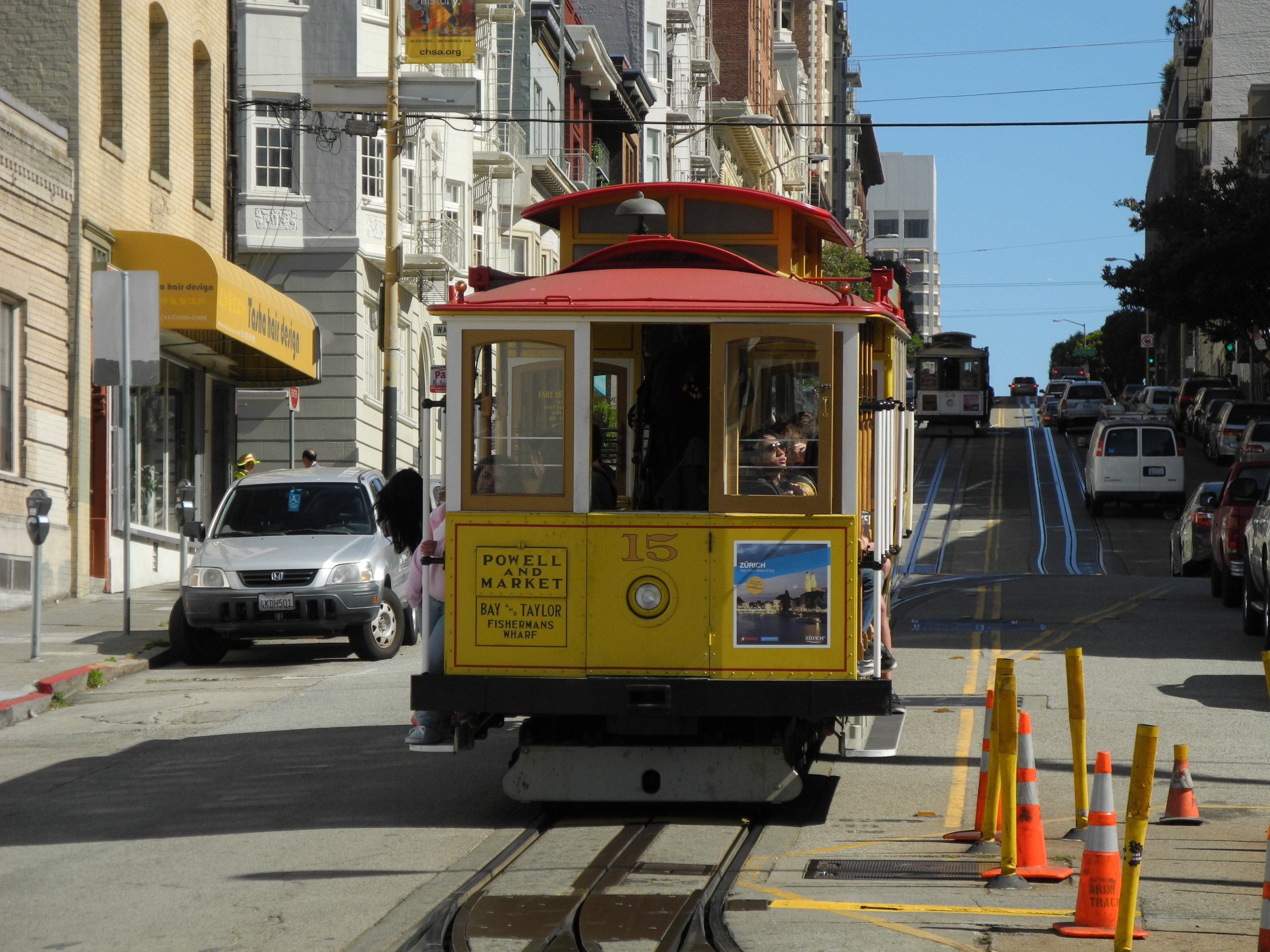 Car 15, operated the Powell & Mason Line, ready to turn onto Jackson Street from Powell Street.